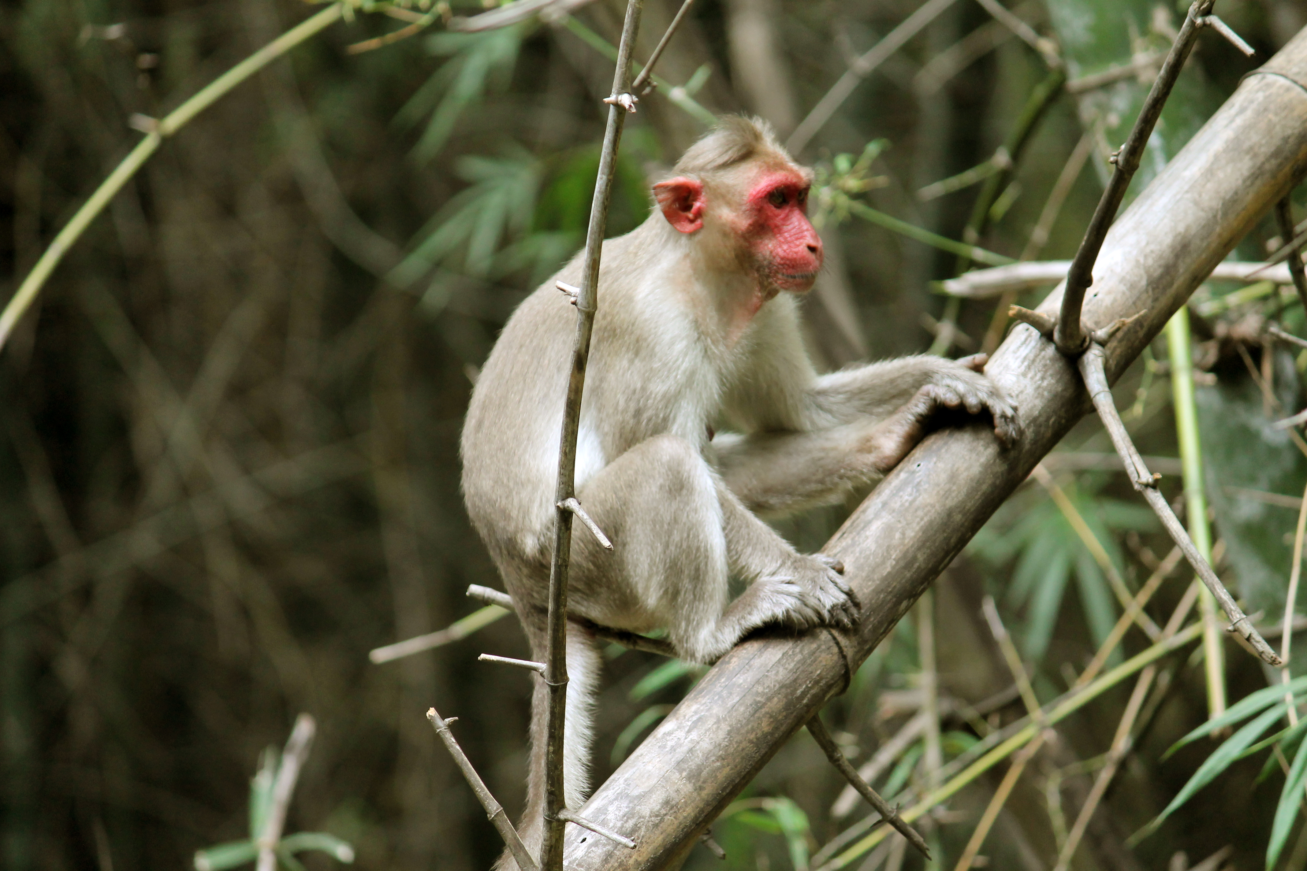 The bonnet macaque (Macaca radiata). From Kalrayan Hill Forests, Tamil Nadu, India. (തമിഴ്നാട്ടിലെ കൽരായൻ കാട്ടിൽ മുളയിലിരിക്കുന്ന തൊപ്പിക്കുരങ്ങ്).